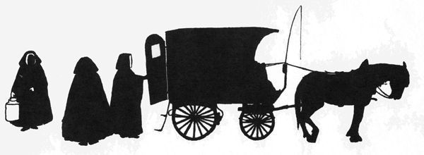 So-called "silhouette" of nuns collecting foodstuffs in hotels and on farmer's markets.